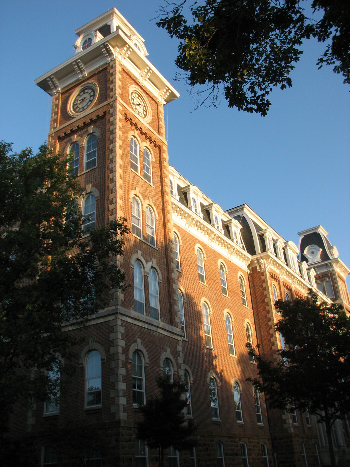 Photograph of Old Main taken on the morning of September 28th, 2007, by Rebel At.